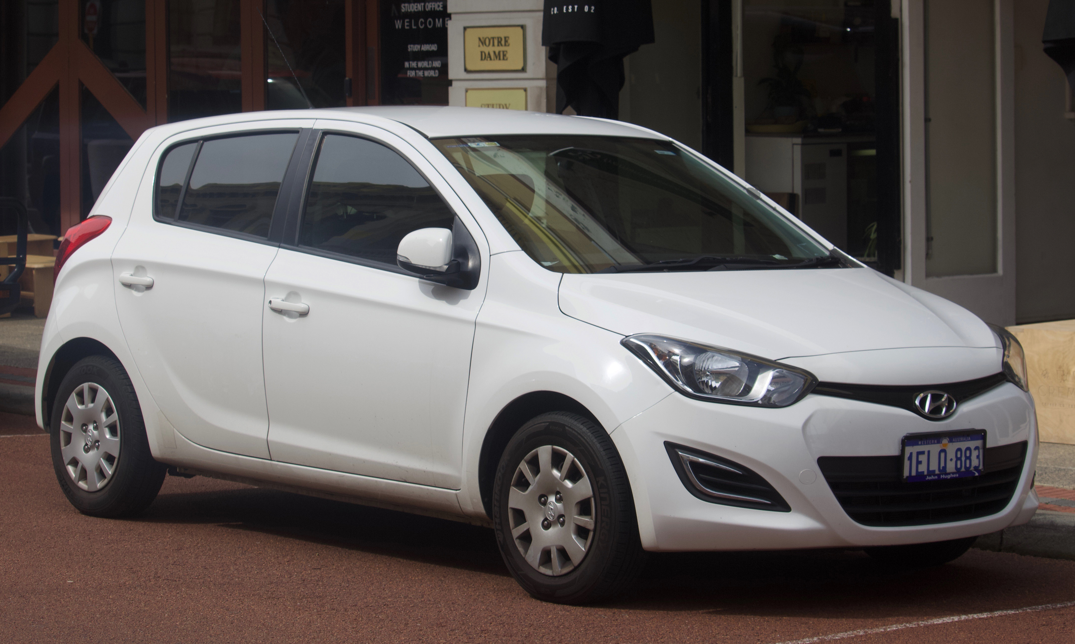 2014 Hyundai i20 (PB MY14) Active 5-door hatchback. Photographed in Fremantle, Western Australia, Australia.